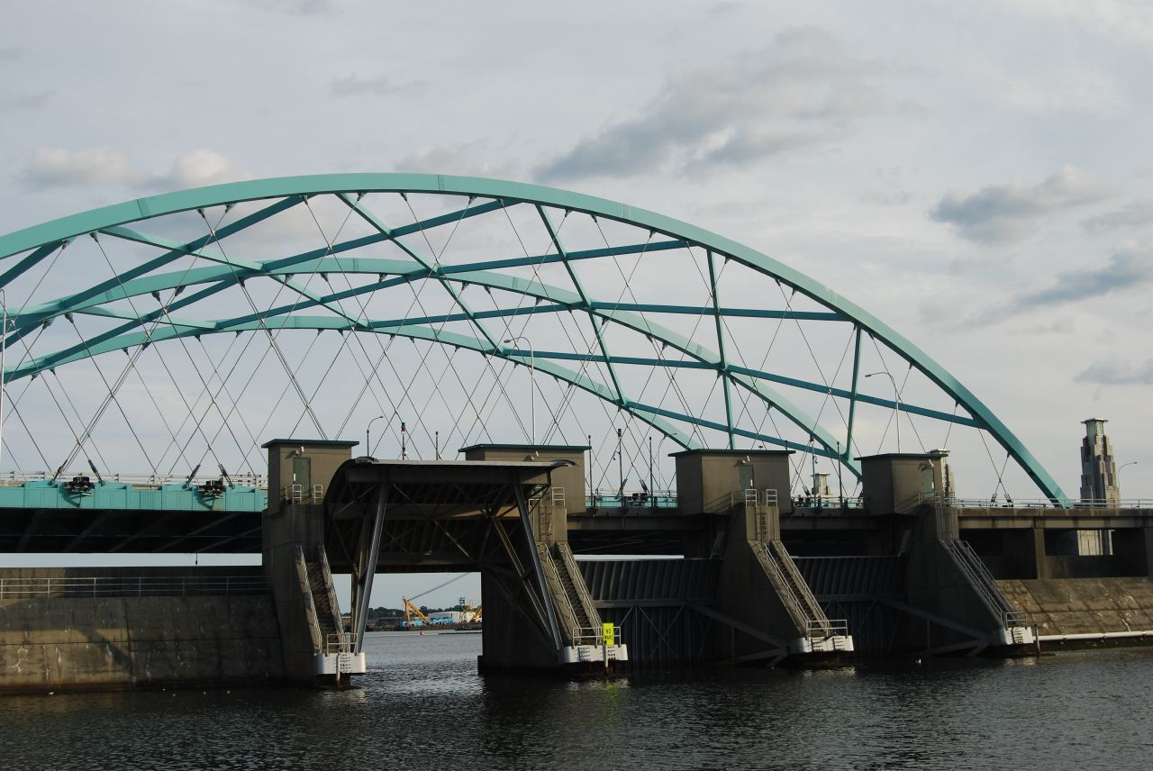 Fox Point Hurricane Barrier Gates and Providence River Bridge, Providence, Rhode Island